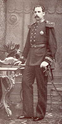 Infante Augusto of Portugal, Duke of Coimbra (4 November 1847 - 26 September 1889)